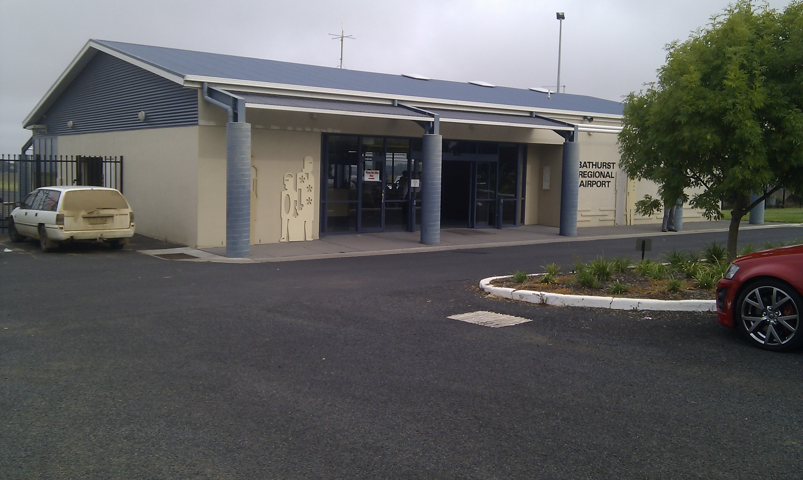 Bathurst New South Wales, Regional Airport Terminal in March 2011